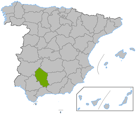 Location of the province of Córdoba, in Spain. Basado en: ProvPont.jpg Source: Designed by Satesclop. Original picture, designed by Sobreira.